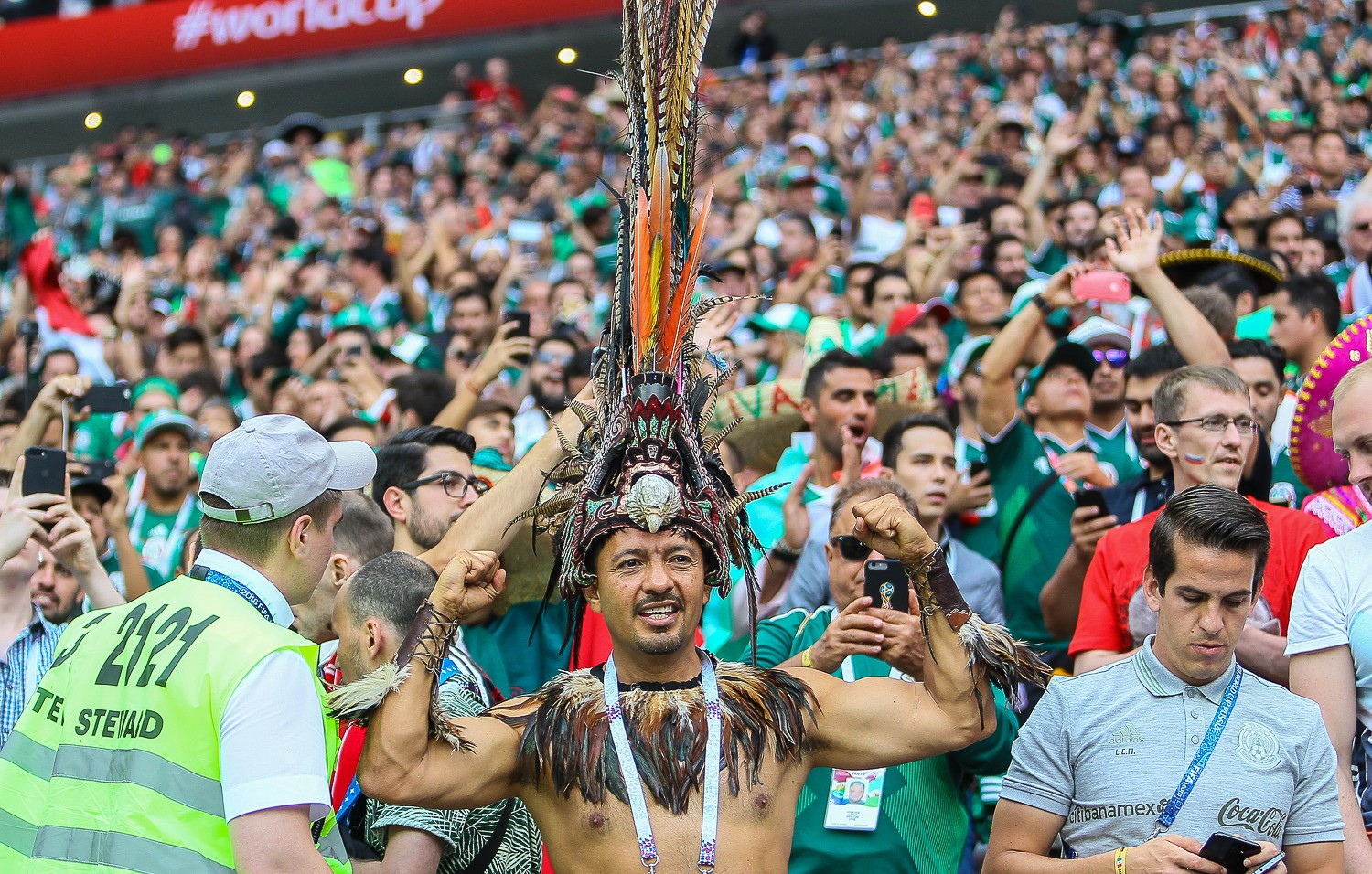 Germany and Mexico match at the FIFA World Cup 2018-06-17